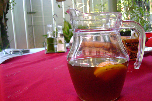 A pitcher of chicha